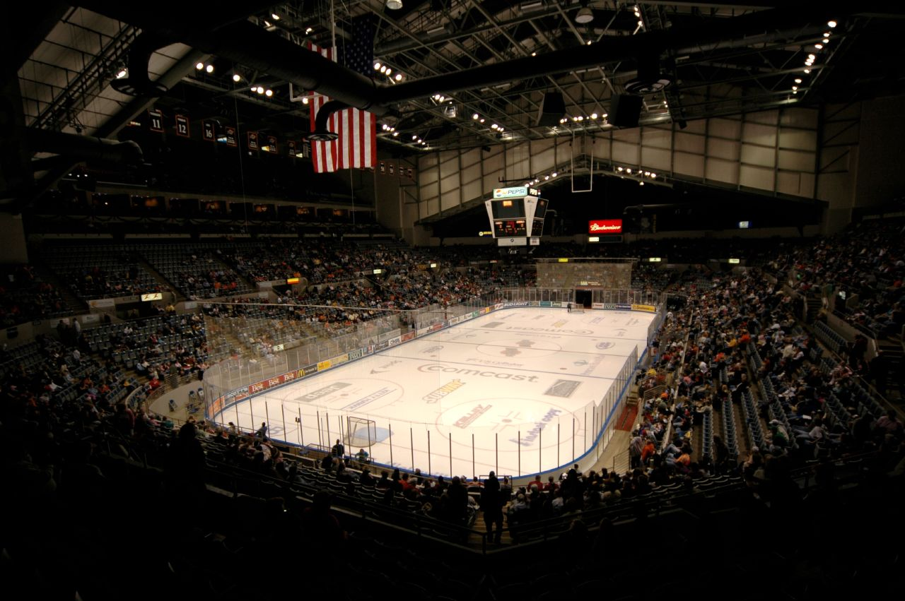 Allen County Memorial Coliseum, FORT WAYNE, home ice of the Fort Wayne Komets